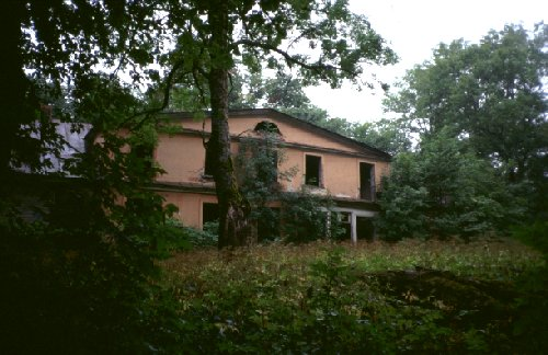 Tirza castle